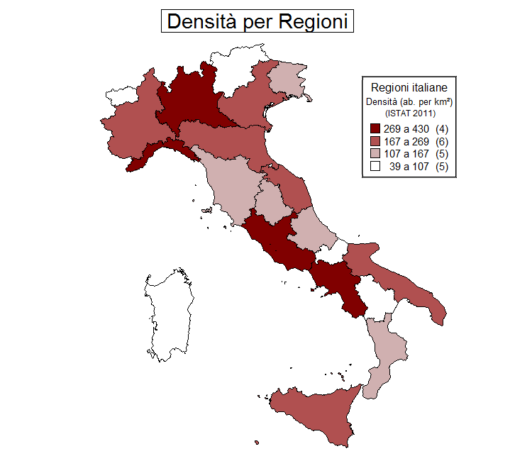 Population density for the Italian regions (2011)